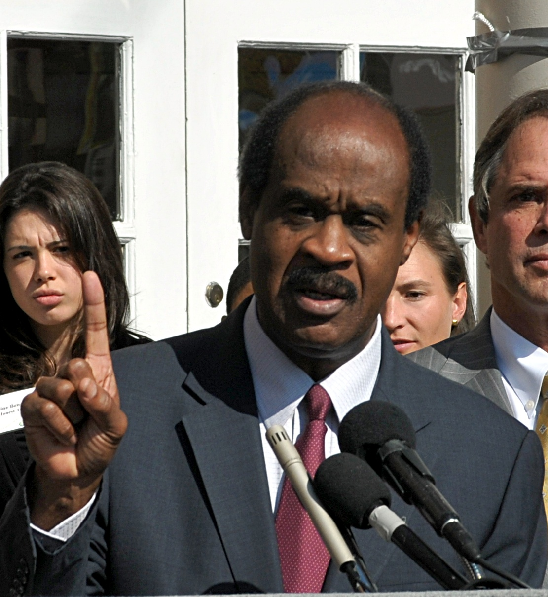 Montgomery County MD executive Ike Leggett speaking at the ribbon cutting ceremony for Bethesda Green in Bethesda, MD